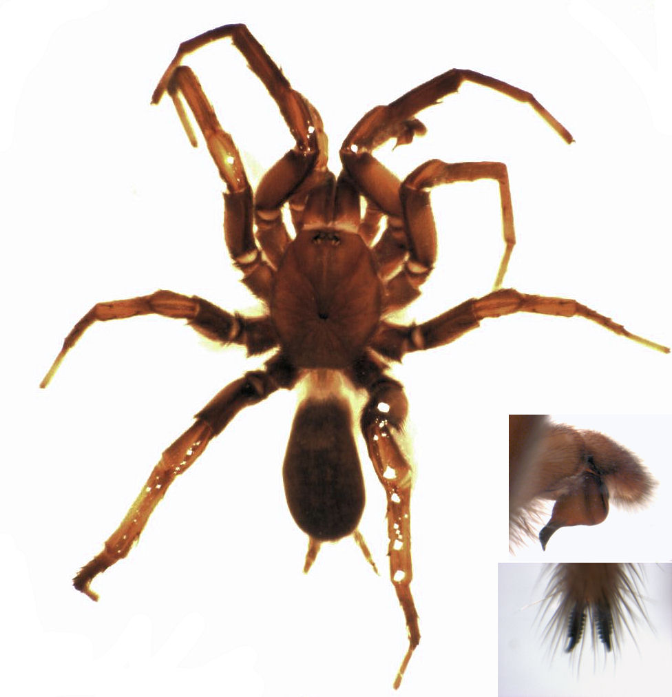 adult male Stanwellia sp.